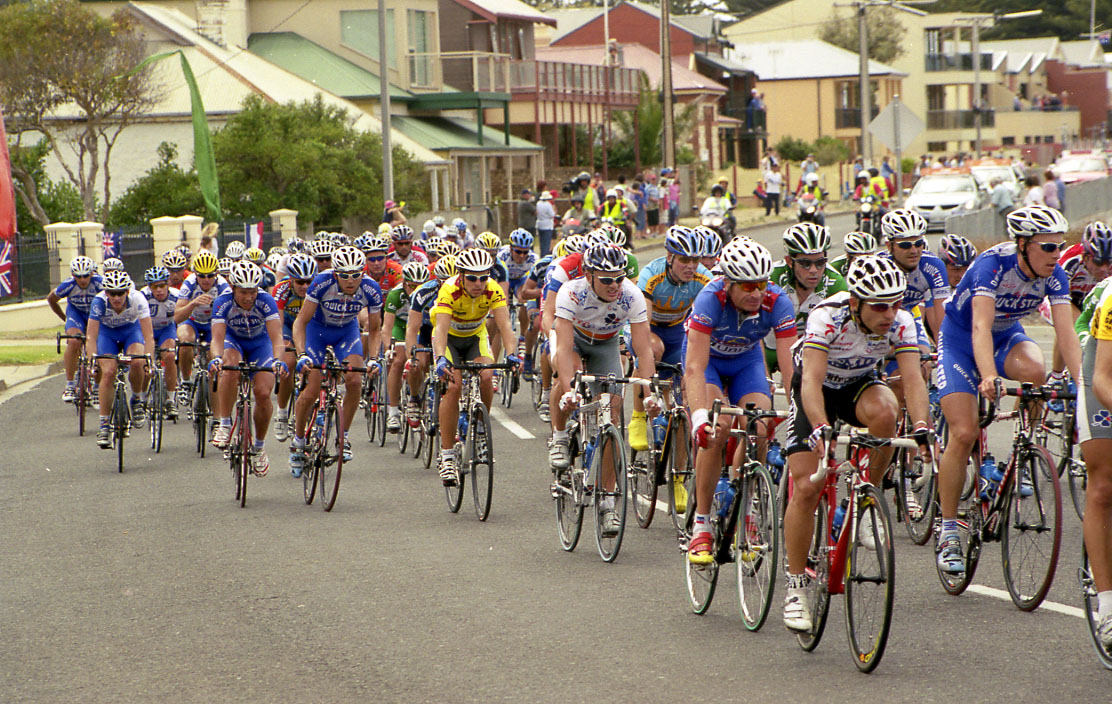 The Tour Down Under peloton in Victor Harbor, South Australia.